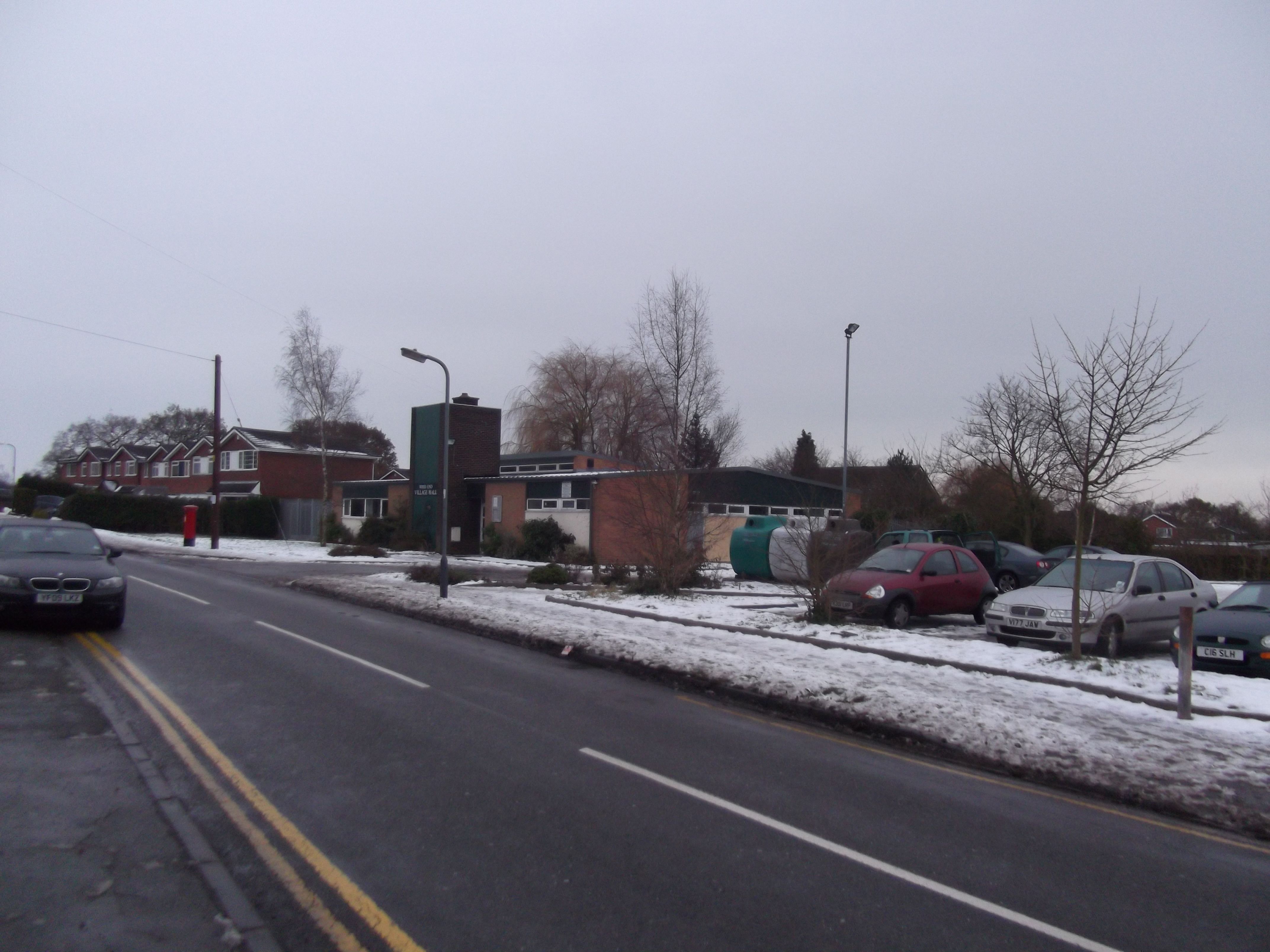 The Village hall in Wood End, Atherstone